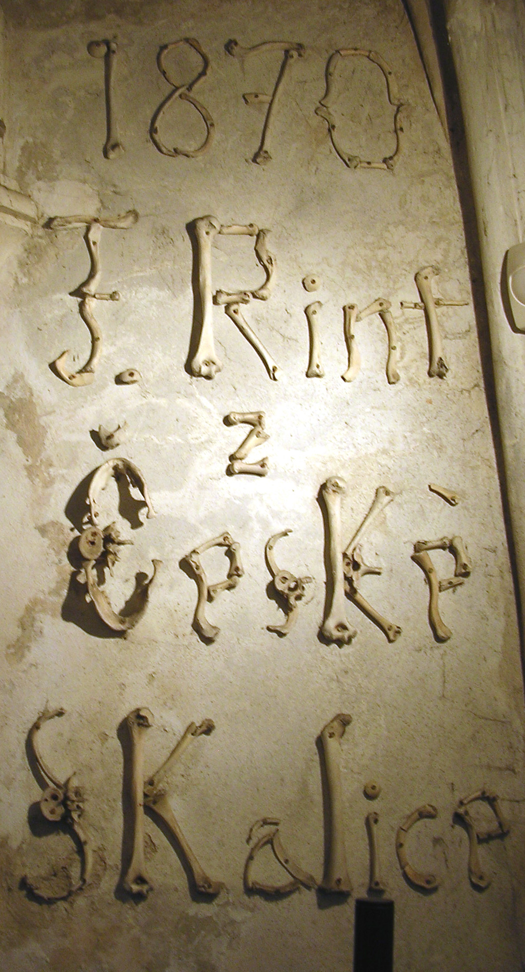 Artist's signature (František Rint from Česká Skalice), Sedlec Ossuary, Czech Republic.